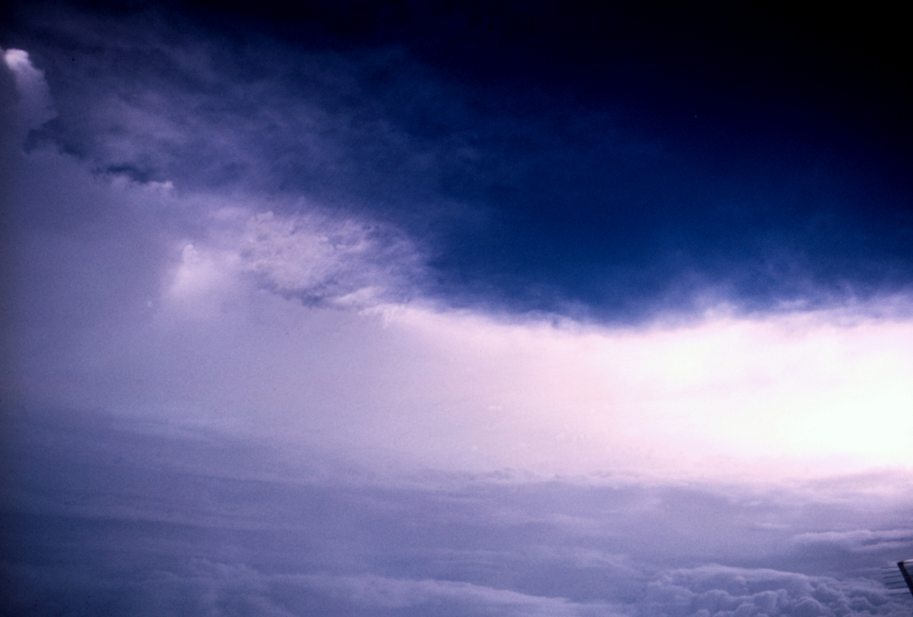 An excellent view from a Hurricane Hunter aircraft in the eye of Hurricane Betsy. In the foreground there are low clouds which occupy the eye, in the background the eyewall looms, several miles high.